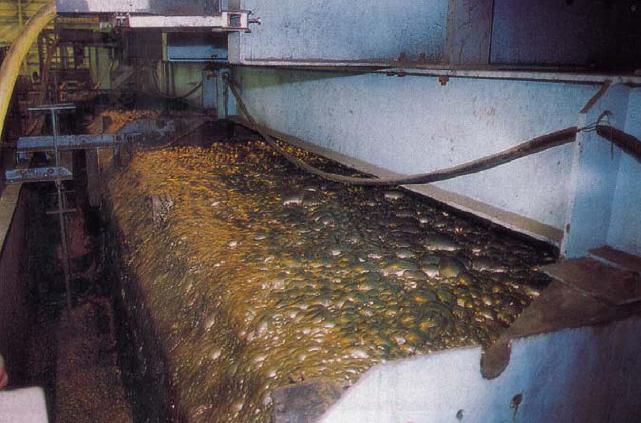 Industrial froth flotation of copper sulphide ores.